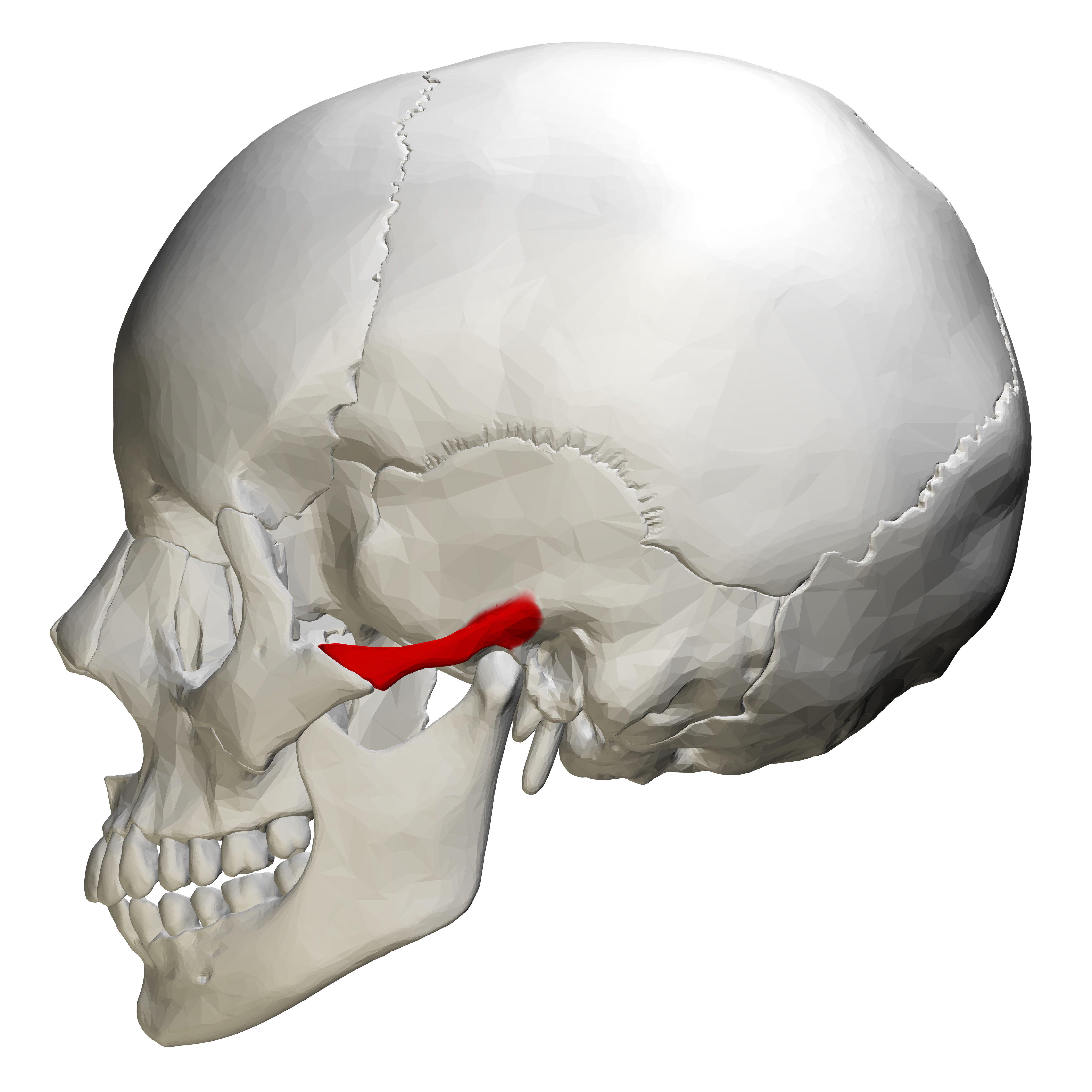 Zygomatic process of temporal bone (shown in red)